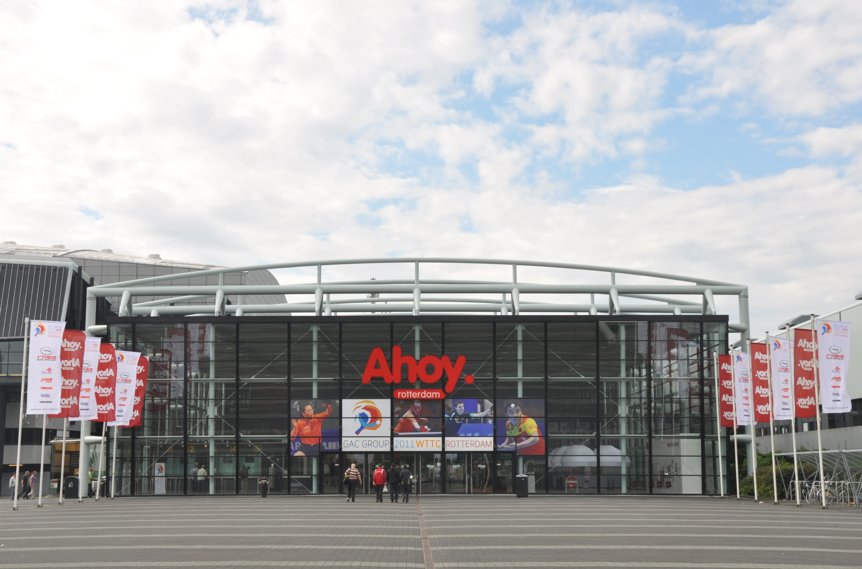 Ahoy Exhibition Center. Venue for the 2011 World Table Tennis Championships